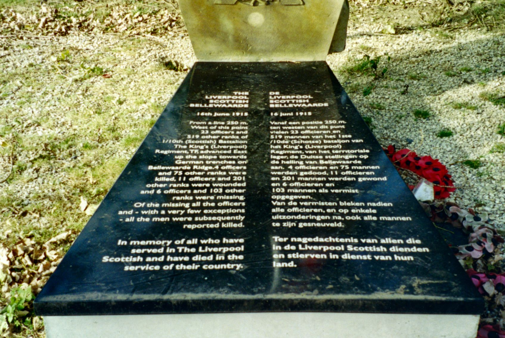 The Liverpool Scottish memorial at Bellewaarde, West Flanders, Belgium. Detail of the inscription.